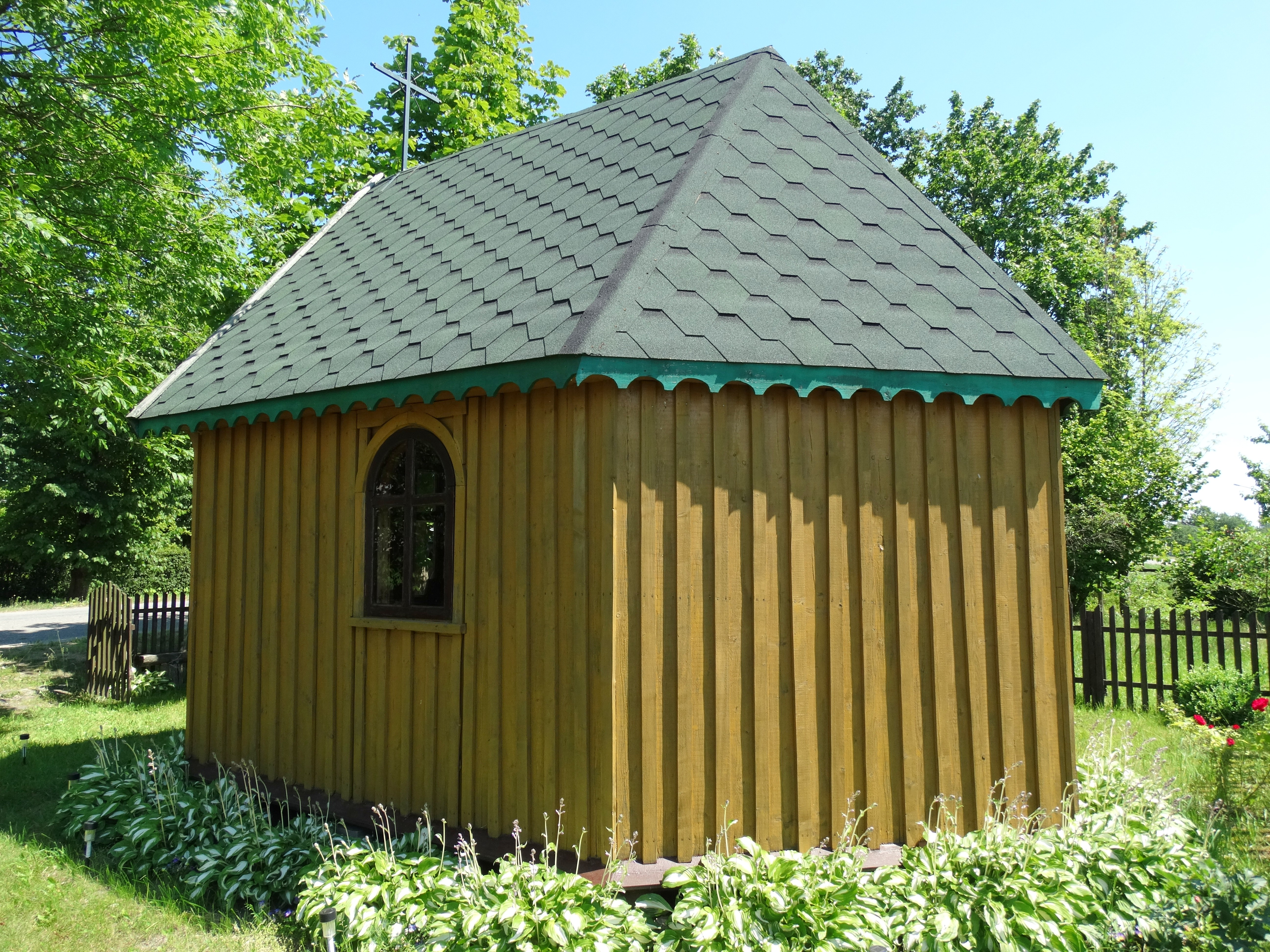 Chapel in Daugėdai, Rietavas Municipality, Lithuania